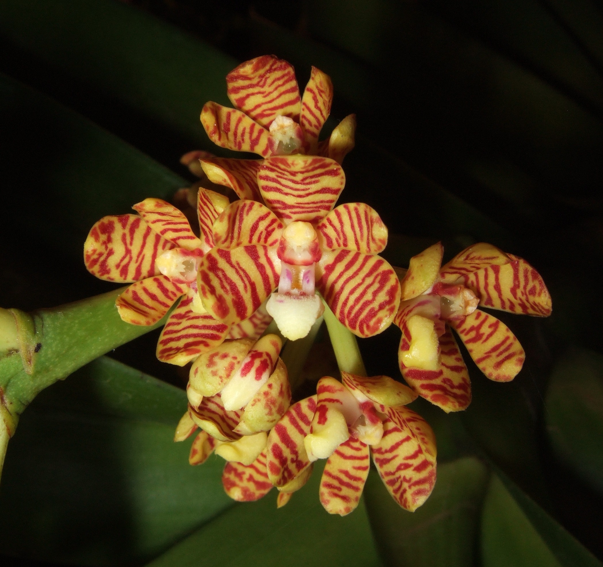 Inflorescence of Acampe rigida.